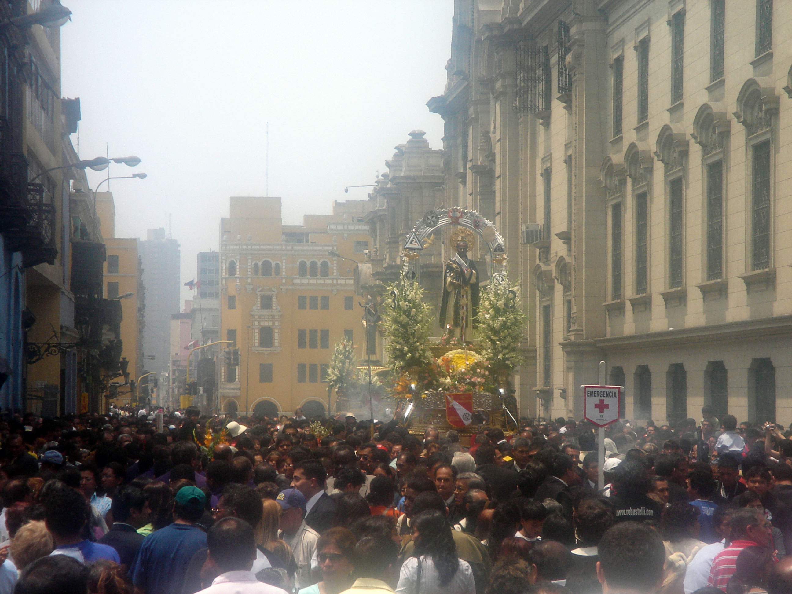 San Martin de Porres' Procession. Lima, 2006.